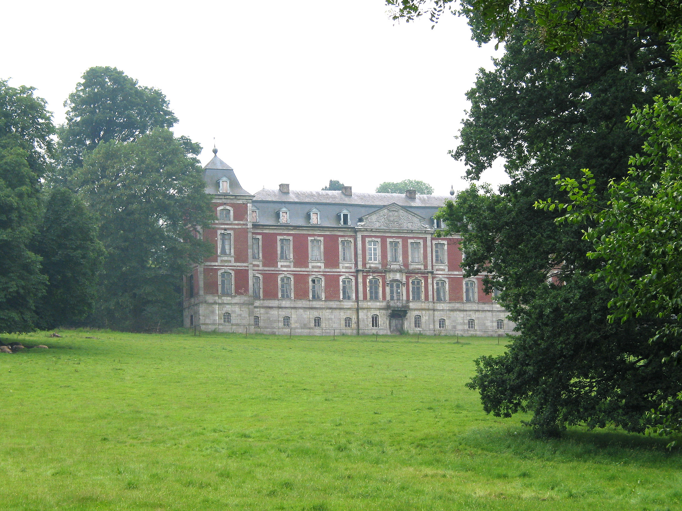 Marchin (Belgium), Belle-Maison - The "Belle Maison" castle (XVIIIth century).